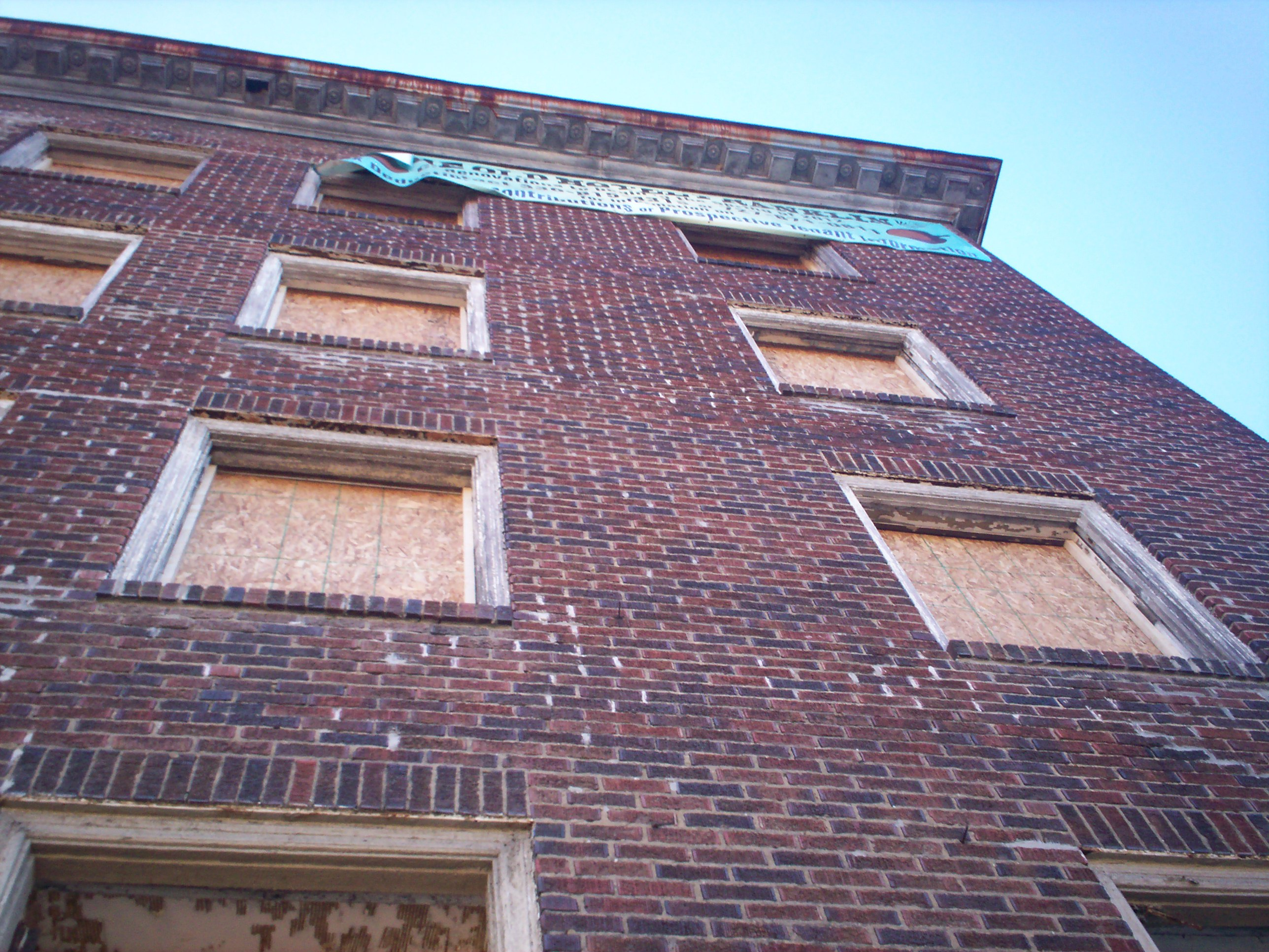 The Franklin Hotel in Kent, Ohio in early 2012, just prior to exterior renovations beginning.